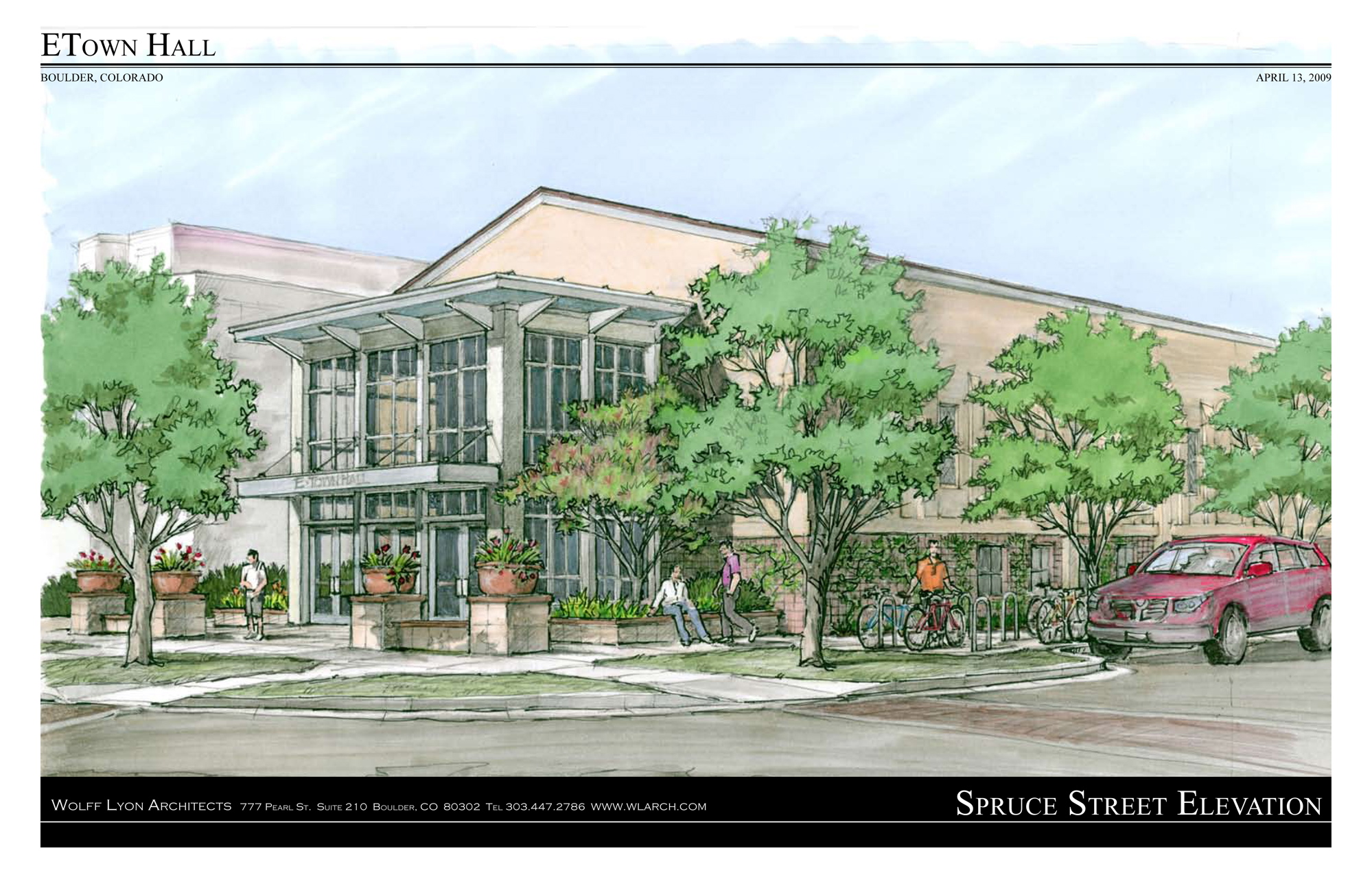 A sketch of what ETown Hall will look like when completed in Boulder, CO.